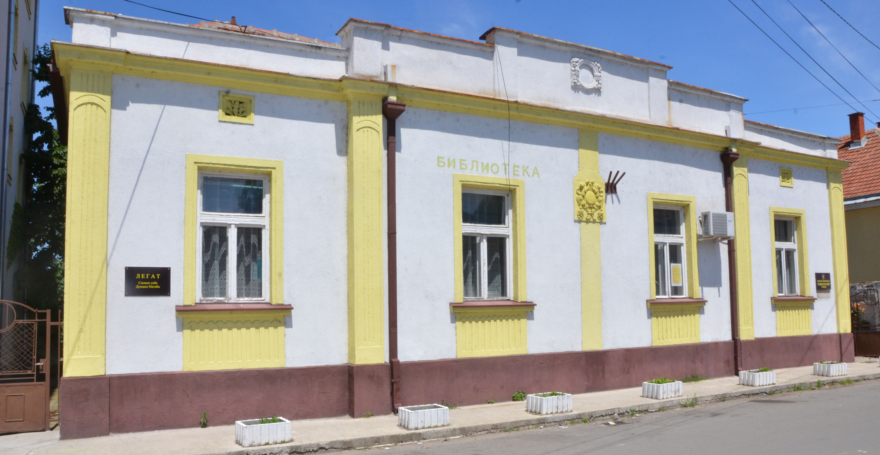 Public library Dusan Matic